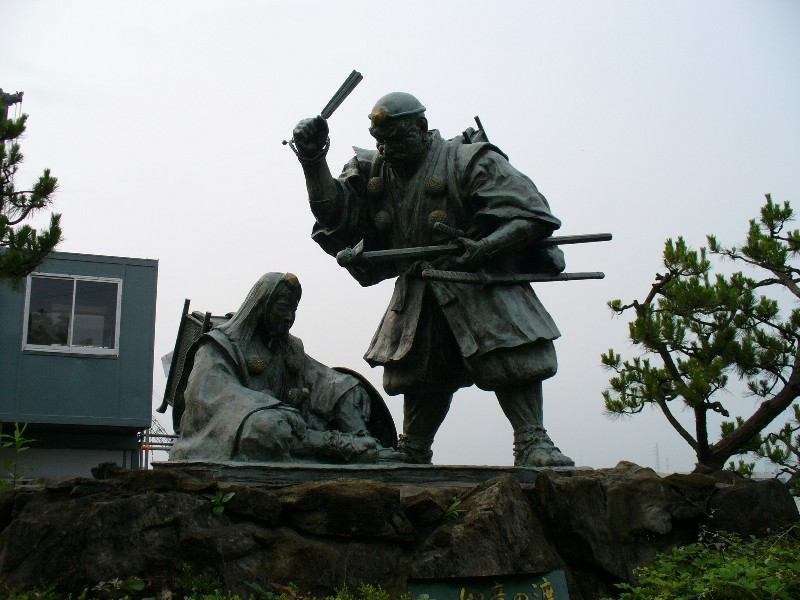 The statue at Nyoinowatashi, Takaoka city Toyama prefecture, Japan. Left side sitting person is Minamoto no Yoshitsune, and Right side standing person is Benkei